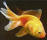 Aus der englischen WP: public domain from goldfish_1.jpg